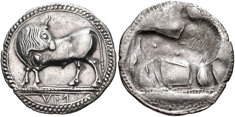 Italy, Lucania, Sybaris. Circa 550-510 BC. AR Nomos or stater (29mm, 7.96 g, 12h). Bull standing left, head right; VM in exergue (ΣΥ in retrograde archaic greek) Incuse bull standing right, head left.